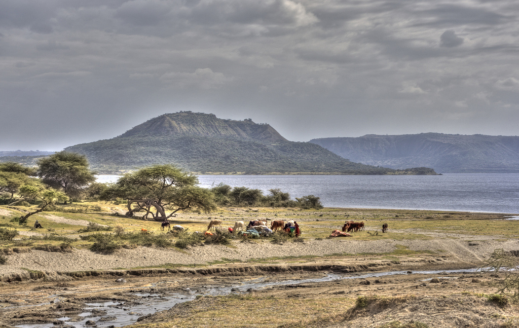 The coast of Lake Shala, with a thermal creek running into it from the nearby hot springs. Lake Shala is a large soda lake located in the Ethiopian Rift Valley, located in the Abijatta-Shalla National Park.